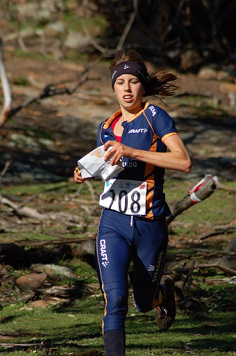 Beata Falk (SWE) at JWOC2007 long distance